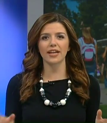 Alyona Minkovski on The Alyona Show